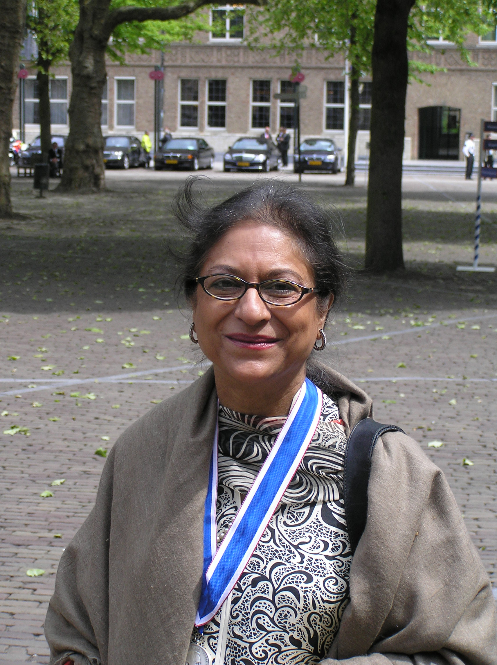 Asma Jahangir, shortly after being awarded the Freedom of Worship Award in Middelburg, the Netherlands, on the 29th of May in 2010.